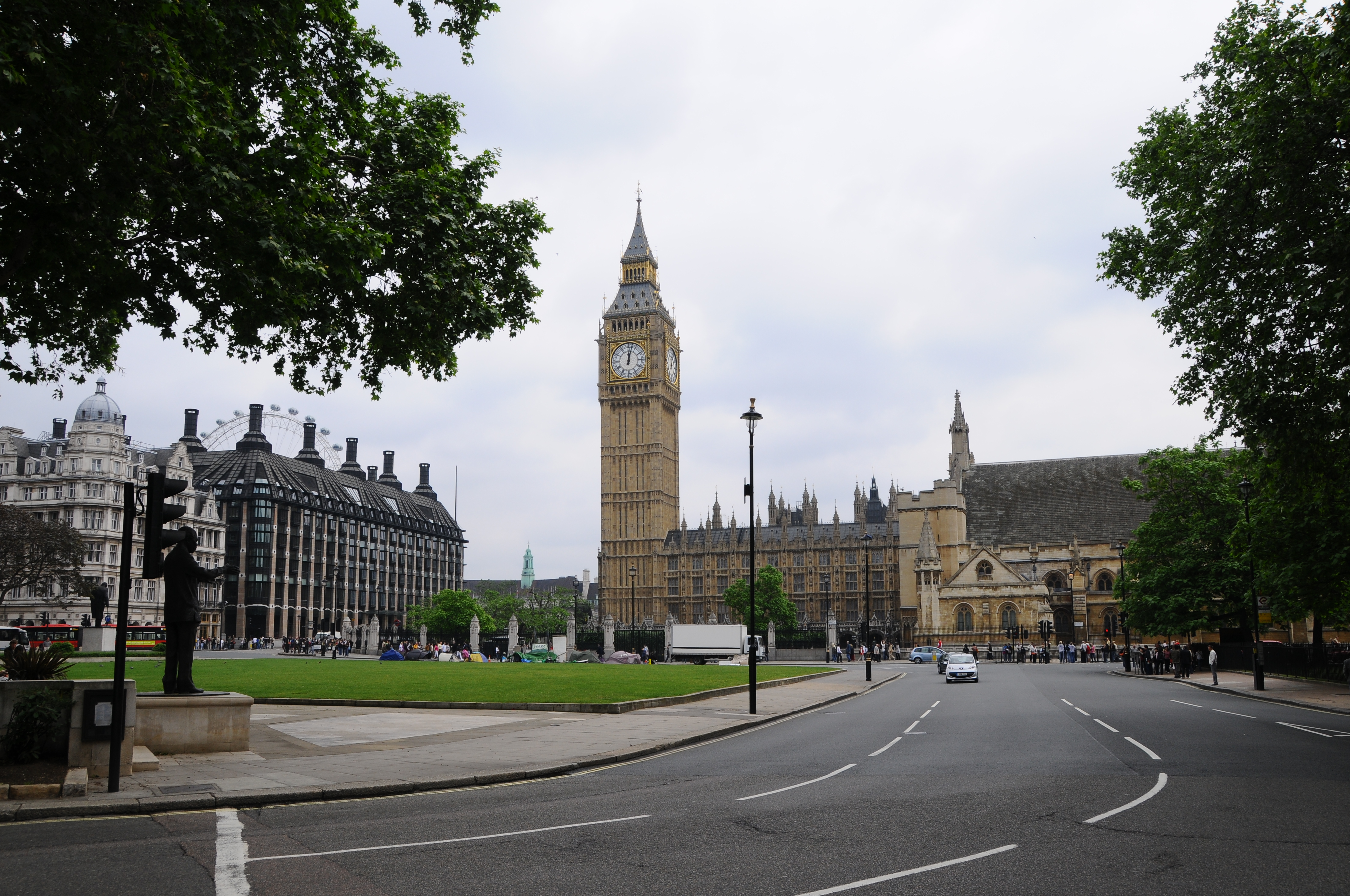 Palace of Westminster, London.